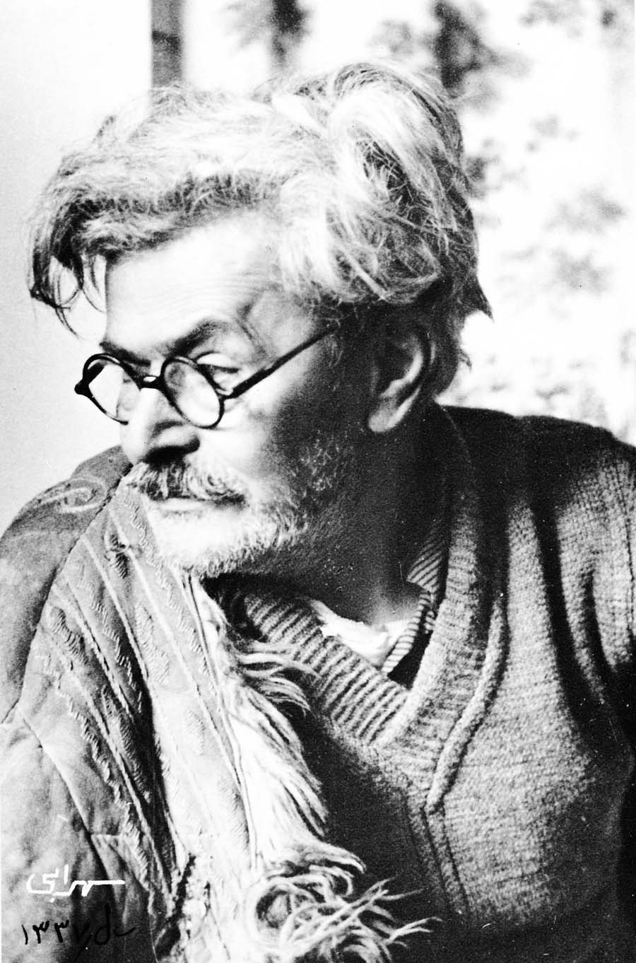 Hossein Behzad, Iranian miniaturist